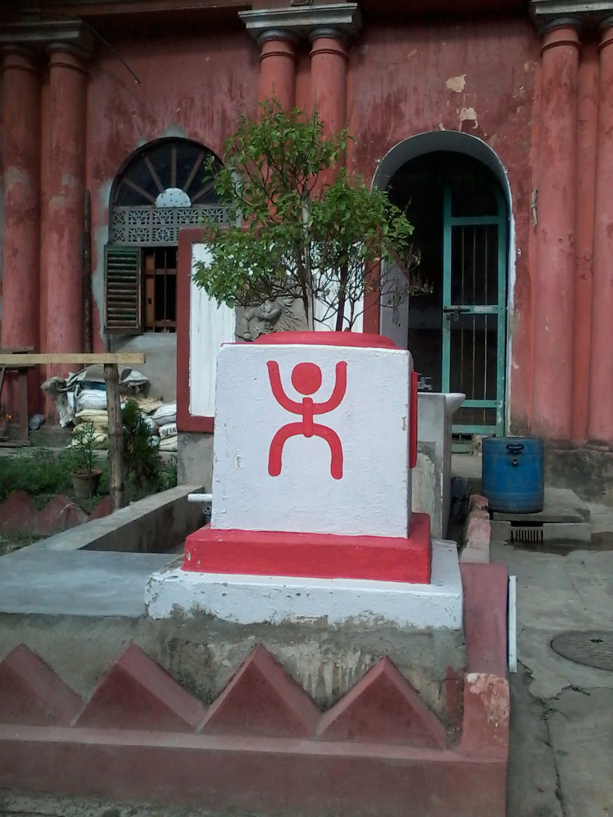 Photograph during Kolkata Photo walk 2019